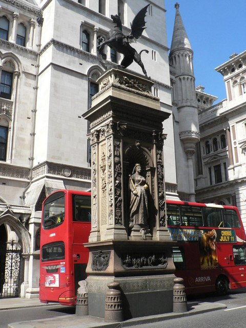 City of London: Temple Bar The 76 bus passes the Royal Courts of Justice and Temple Bar, marking the boundary of the City of London. An arch designed by Wren following the Great Fire of London is no longer here, but was dismantled stone by stone when the Corporation wished to widen the road. The stones were bought privately and the arch re-erected elsewhere, but were returned to the City in 2004 when the arch was rebuilt in Paternoster Square, some distance northeast of here.